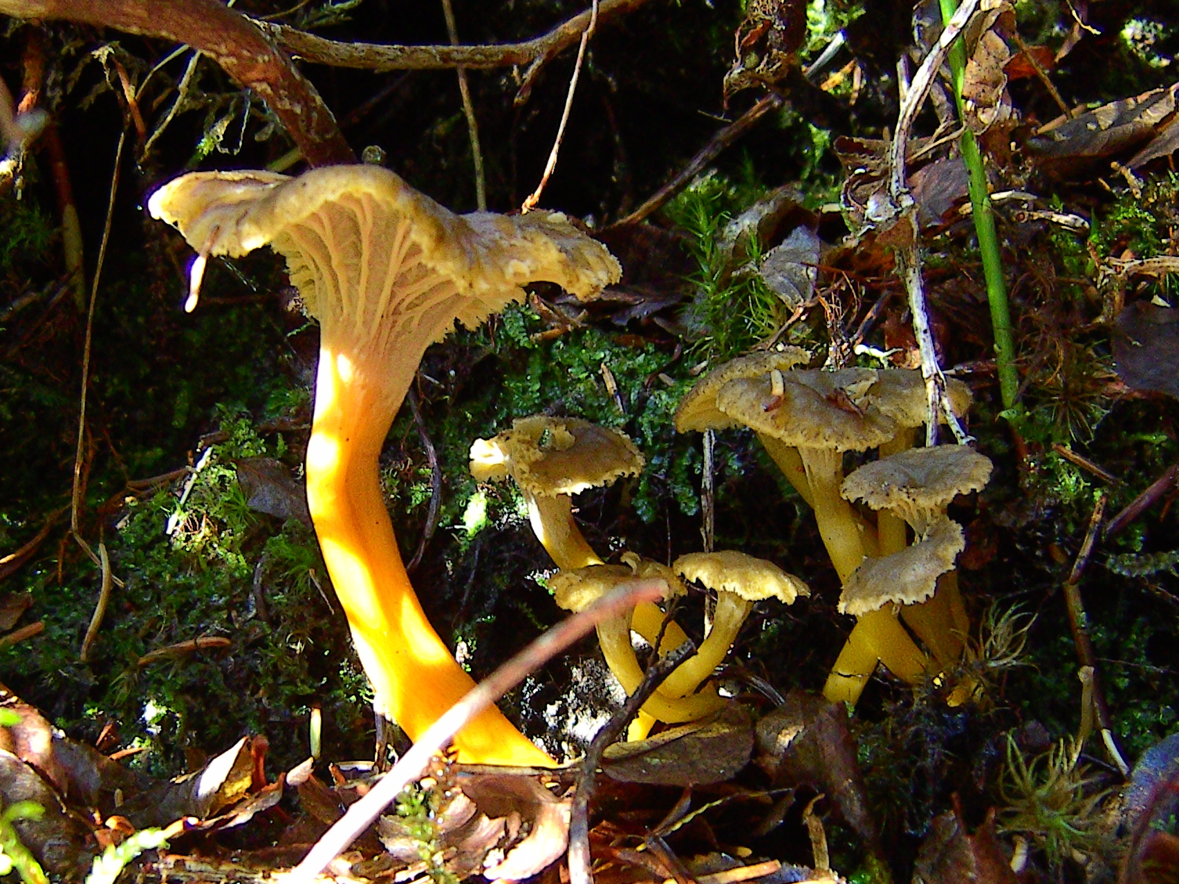 Trumpet Chanterelles (Cantharellus tubaeformis) from Lauterbrunnen, Switzerland.